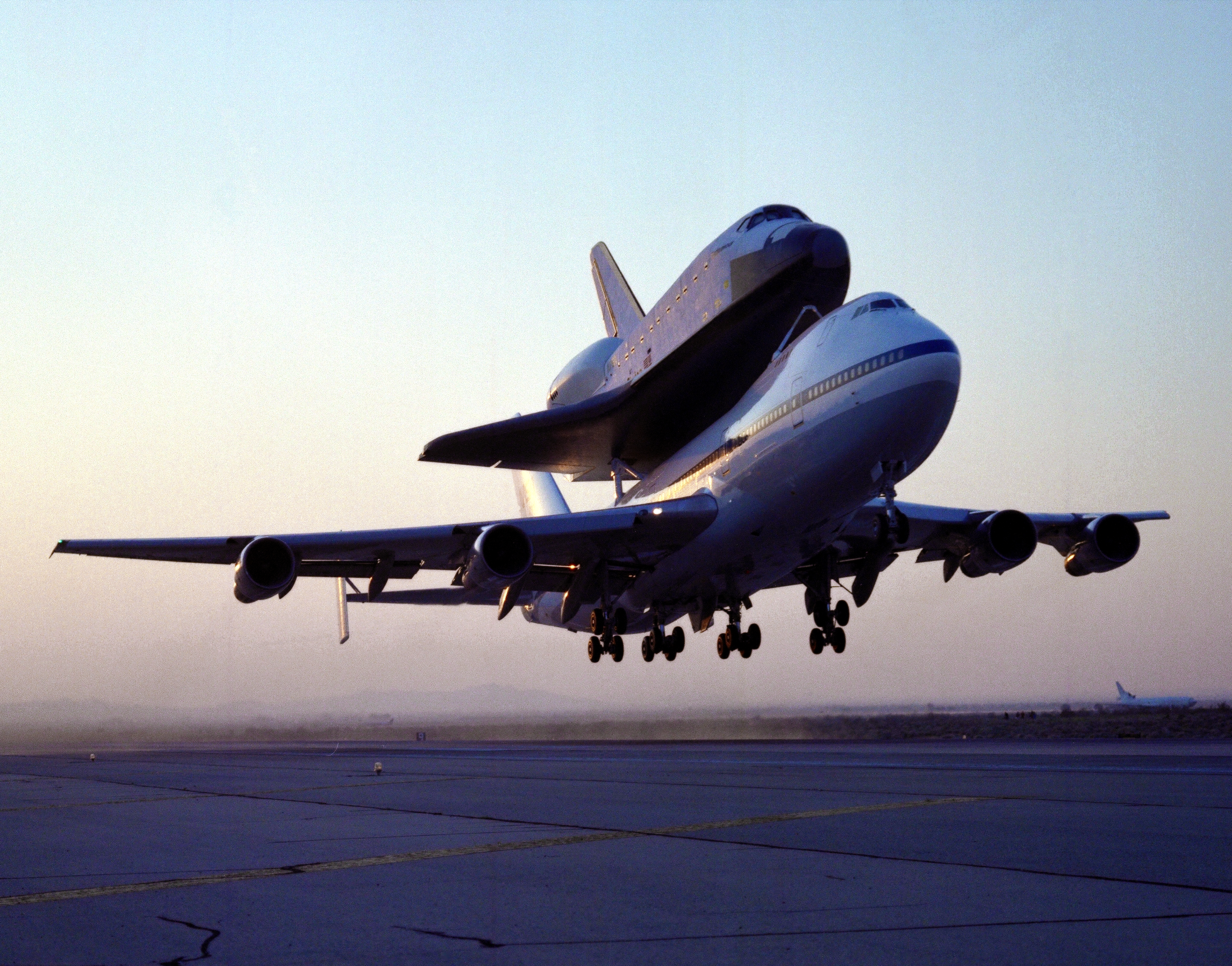 NASA's 747 Shuttle Carrier Aircraft No. 911, with the space shuttle orbiter Endeavour securely mounted atop its fuselage, begins the ferry flight from Rockwell's Plant 42 at Palmdale, California, where the orbiter was built, to the Kennedy Space Center, Florida. At Kennedy, the space vehicle was processed and launched on orbital mission STS-49, which landed at NASA's Ames-Dryden Flight Research Facility (later redesignated Dryden Flight Research Center), Edwards, California, 16 May 1992. NASA 911, the second modified 747 that went into service in November 1990, has special support struts atop the fuselage and internal strengthening to accommodate the added weight of the orbiters.